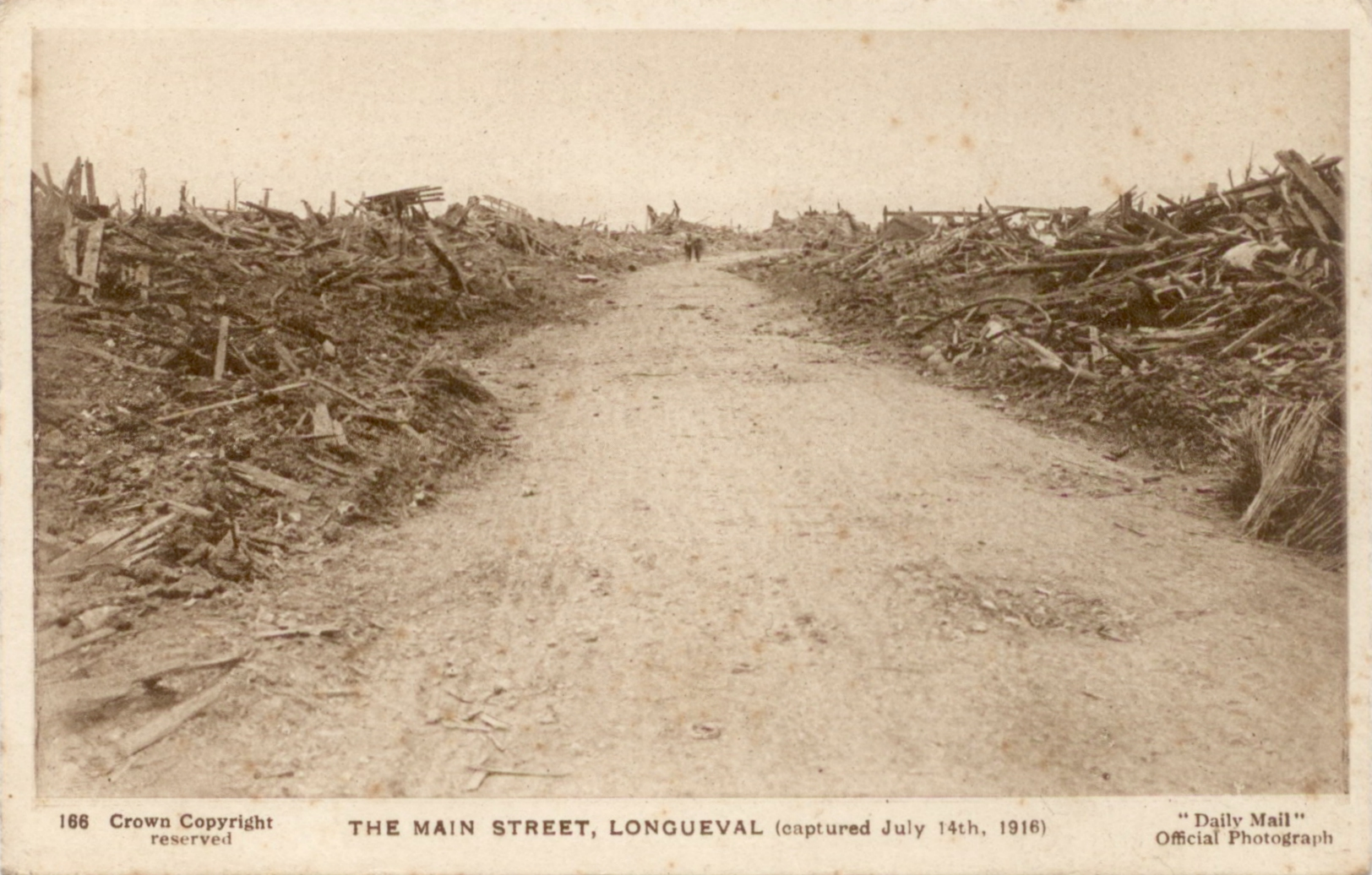 World War I Daily Mail Official War Photograph, Series 21, No. 166, titled "The Main Street, Longueval (captured July 14th, 1916)". The obverse carries the following information: "Passed by Censor" and "The village street of Longueval after the British troops had tidied it up. The street is seen running between the debris of its houses".